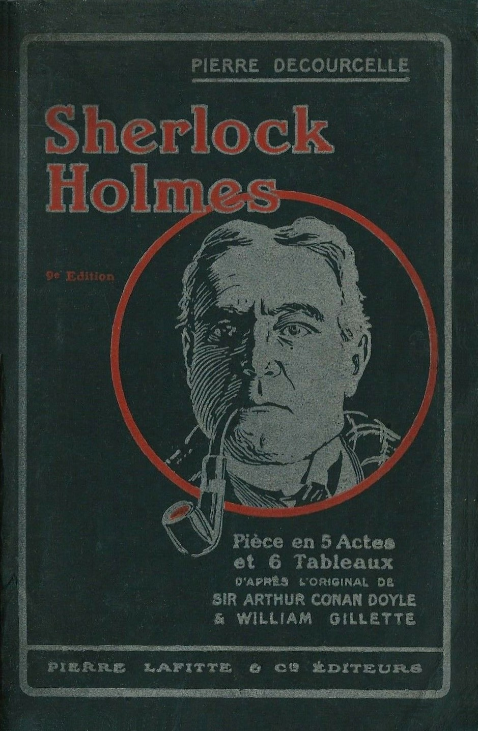 Cover of the 1907 French edition of the play "Sherlock Holmes" by William Gillette, translated by Pierre Decourcelle.